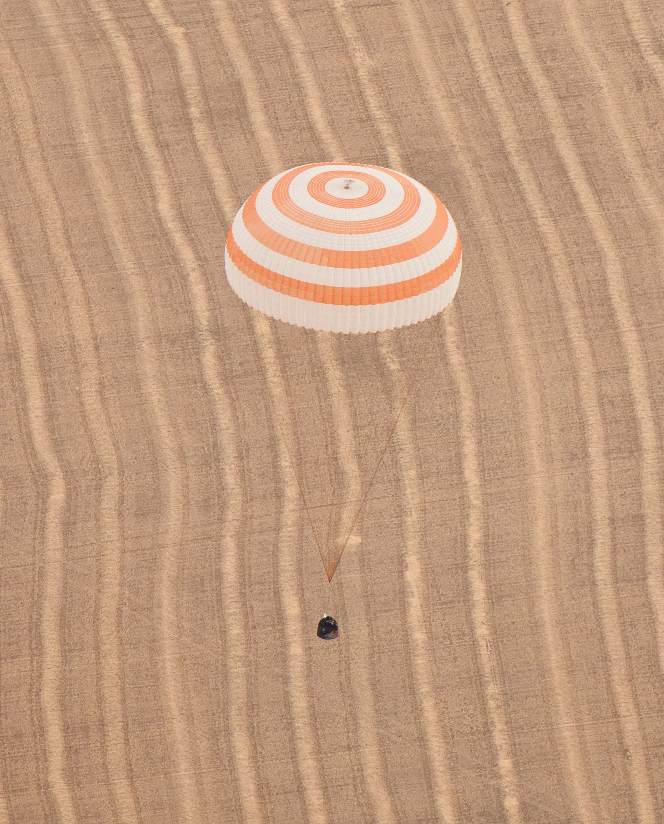 The Soyuz TMA-18 spacecraft is seen as it lands with Expedition 24 Commander Alexander Skvortsov and Flight Engineers Tracy Caldwell Dyson and Mikhail Kornienko near the town of Arkalyk, Kazakhstan on Saturday, Sept. 25, 2010. Russian Cosmonauts Skvortsov and Kornienko and NASA Astronaut Caldwell Dyson, are returning from six months onboard the International Space Station where they served as members of the Expedition 23 and 24 crews.